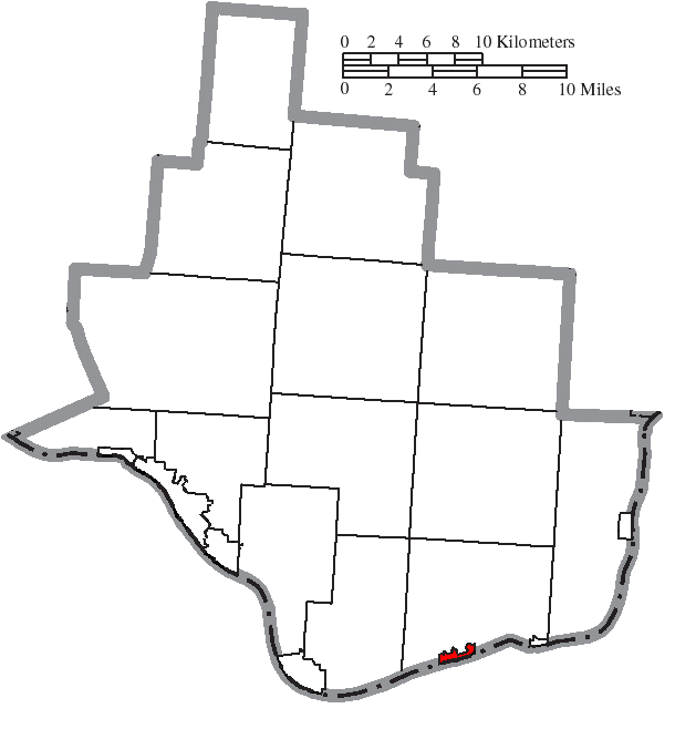 Map of the municipal and township boundaries of Lawrence County, Ohio, United States, as of the 2000 census, with the location of the village of Chesapeake highlighted. Township borders are shown only in unincorporated areas in order to differentiate incorporated and unincorporated areas more clearly.